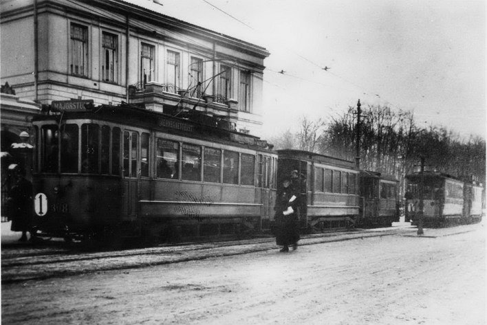 SS tram at Nobelinstiuttet in Drammensveien